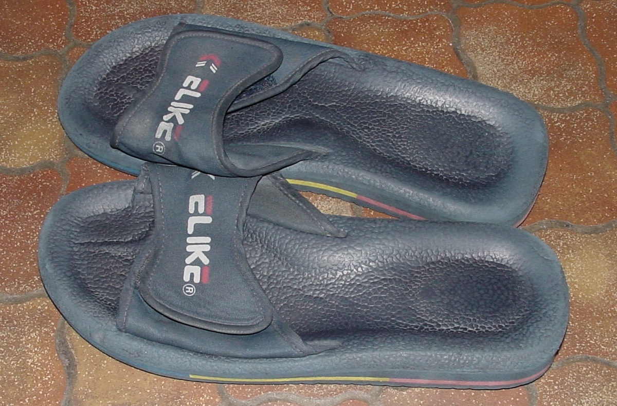 An old pair of slides.